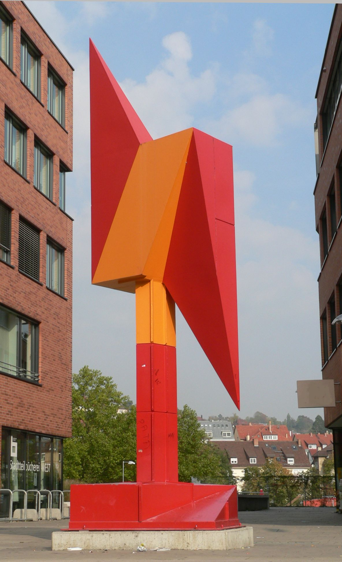 Otto Herbert Hajek, Raumbewegung 76/86 II, at the corner Schwab- / Bebelstraße, Stuttgart, Germany